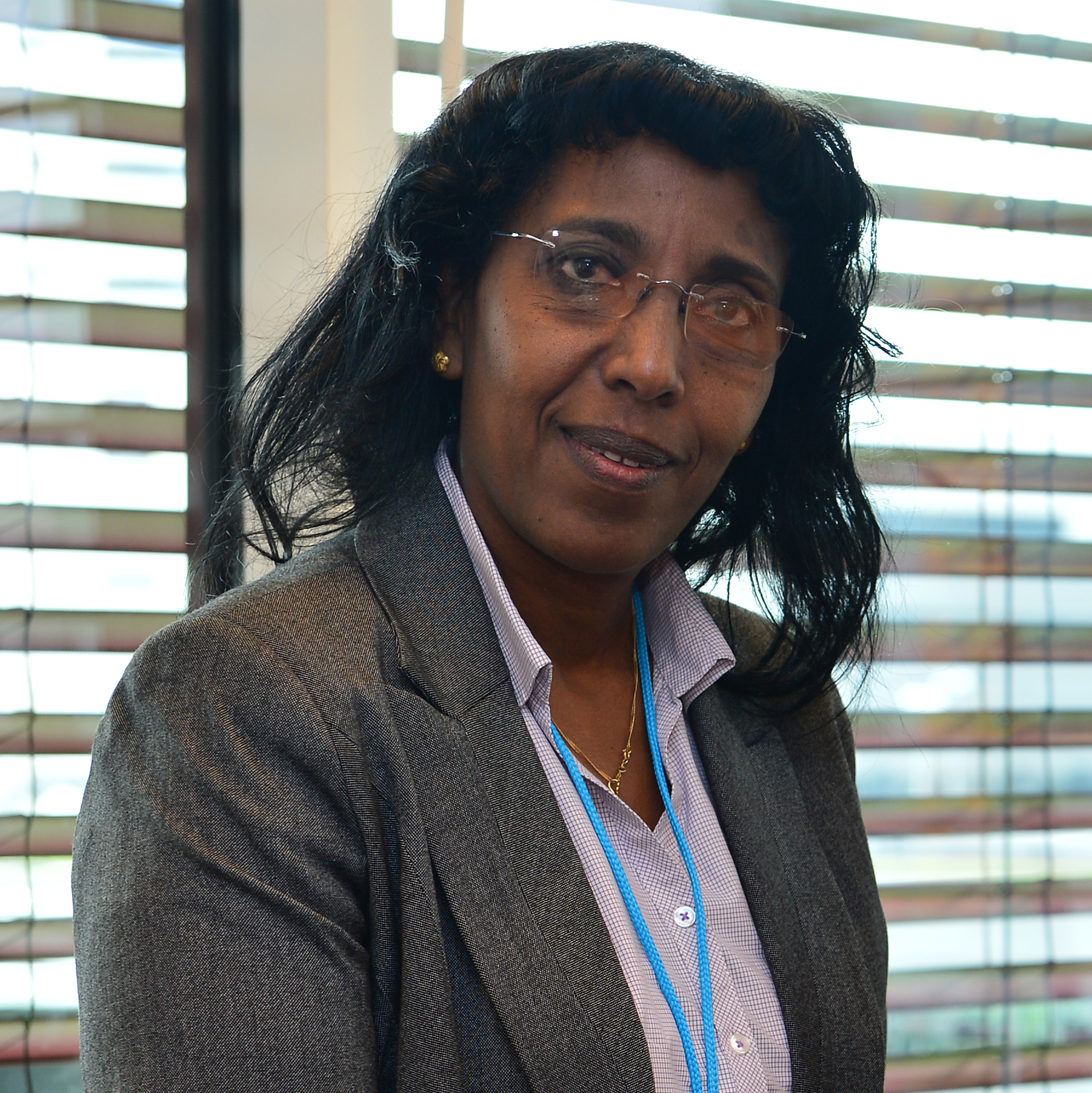 Ms. Demitu Hambisa Bonsa, Minister of Science and Technology of Ethiopia, at the IAEA 57th General Conference. IAEA, Vienna, Austria. 18 September 2013. Photo Credit: Dean Calma / IAEA